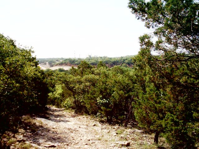 Cleburne State Park, trail view.